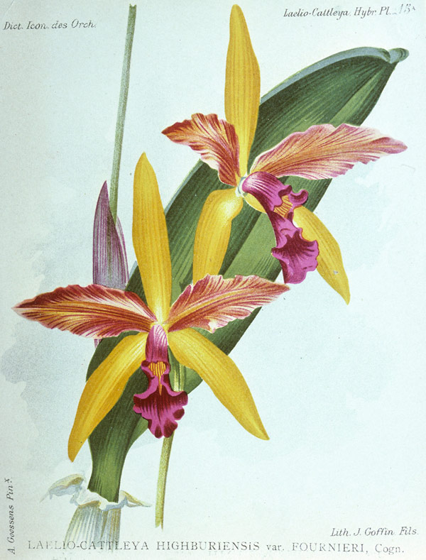 Laeliocattleya × highbouriensis var. fournieri Cogn.